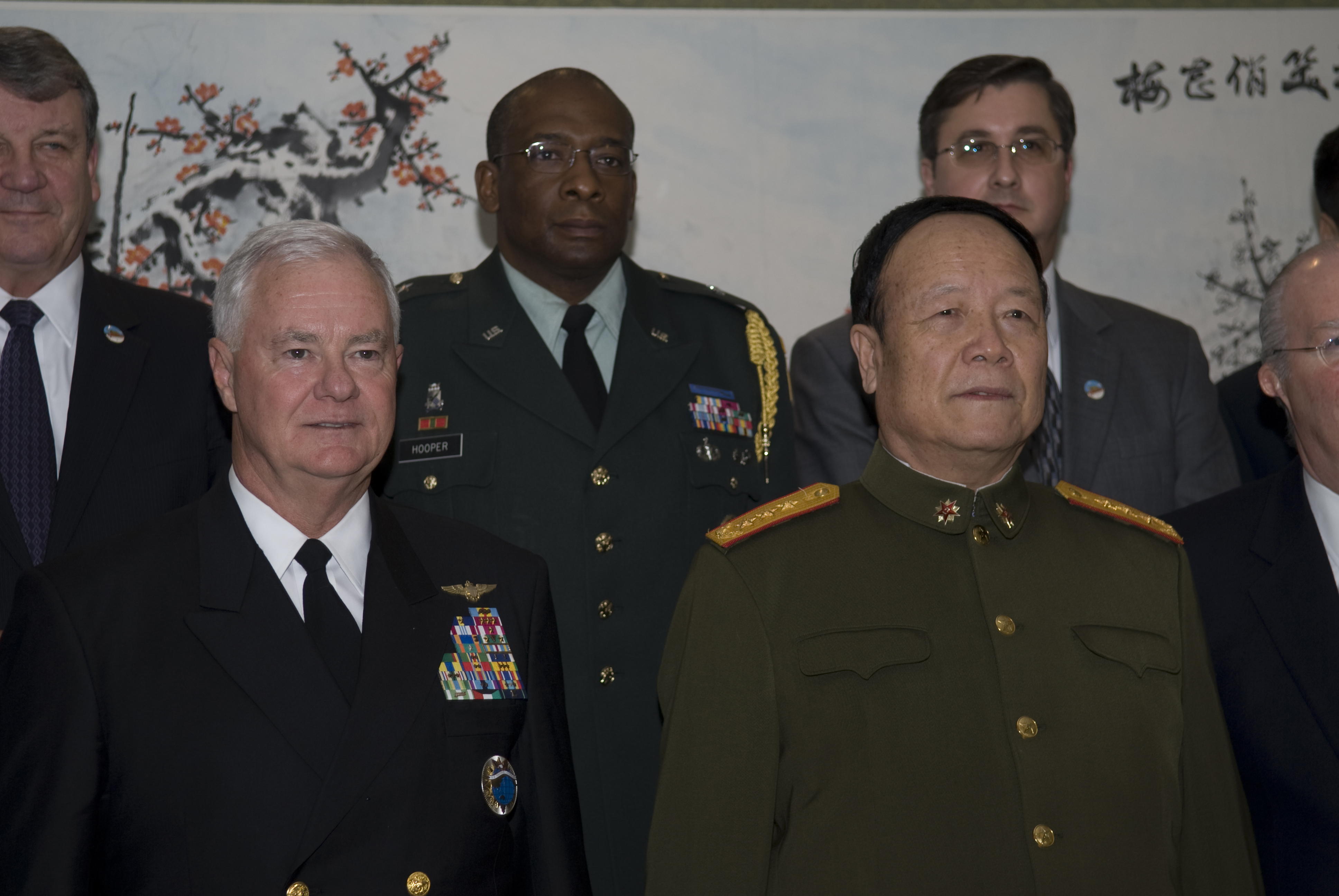 BEIJING (Jan. 14, 2008) Adm. Timothy J. Keating, commander of U.S. Pacific Command, and Gen. Guo Boxiong, vice chairman of the Chinese Central Military Commission, pose for a photo before a meeting with military and government officials. U.S. Navy photo by Mass Communication Specialist 2nd Class Elisia V. Gonzales (Released)